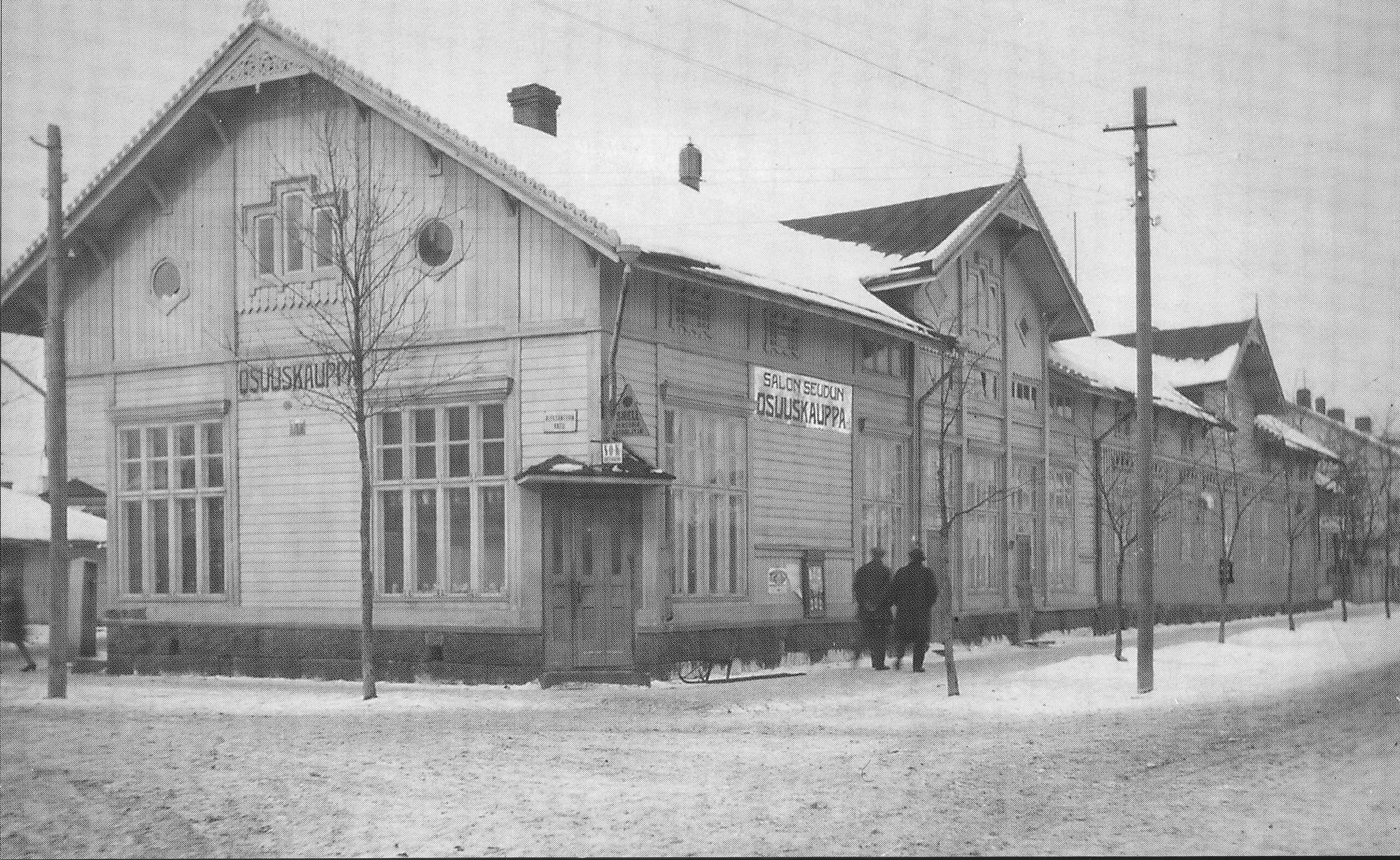 Salon Seudun Osuuskauppa building